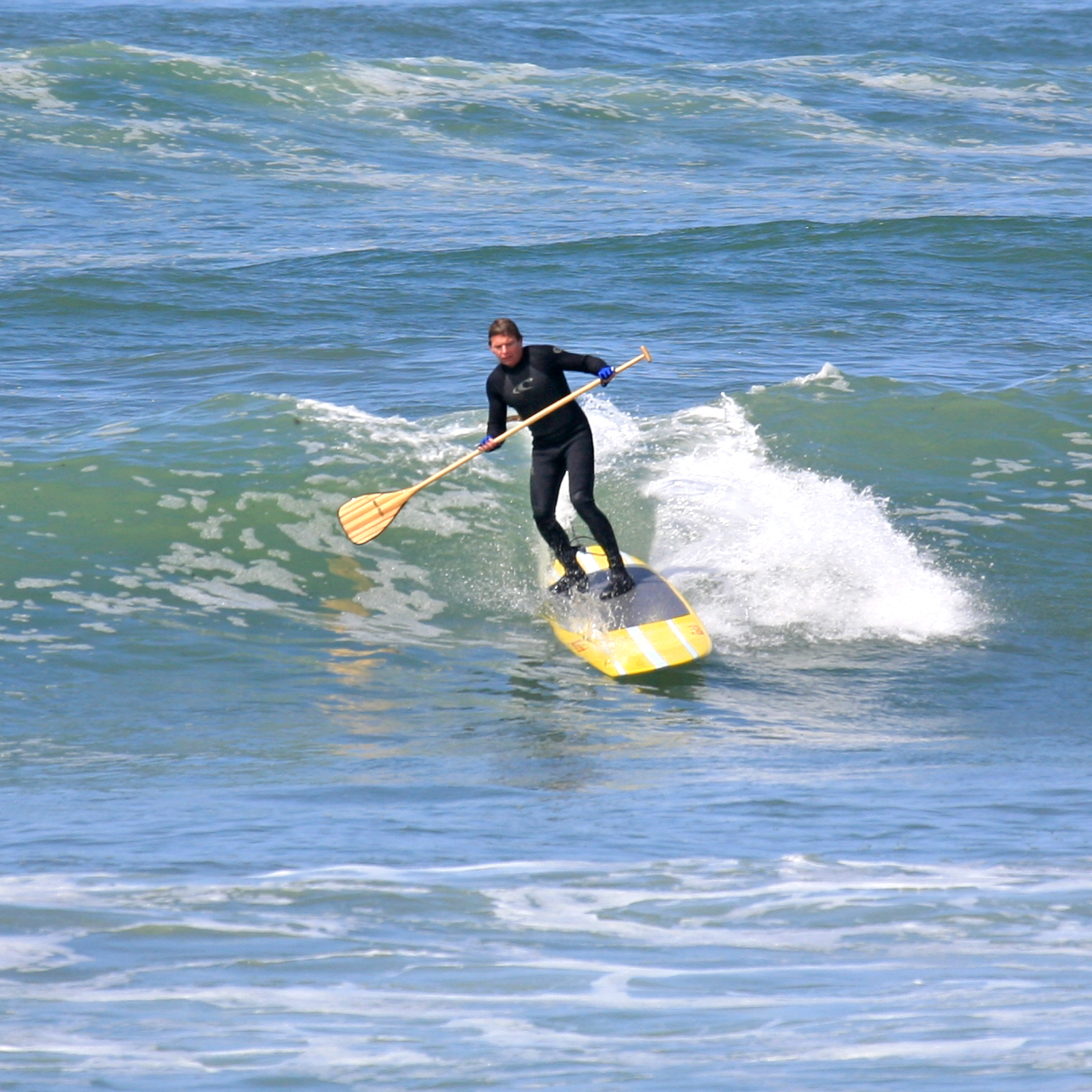 Paddle surfing in San Diego, California, March 2007